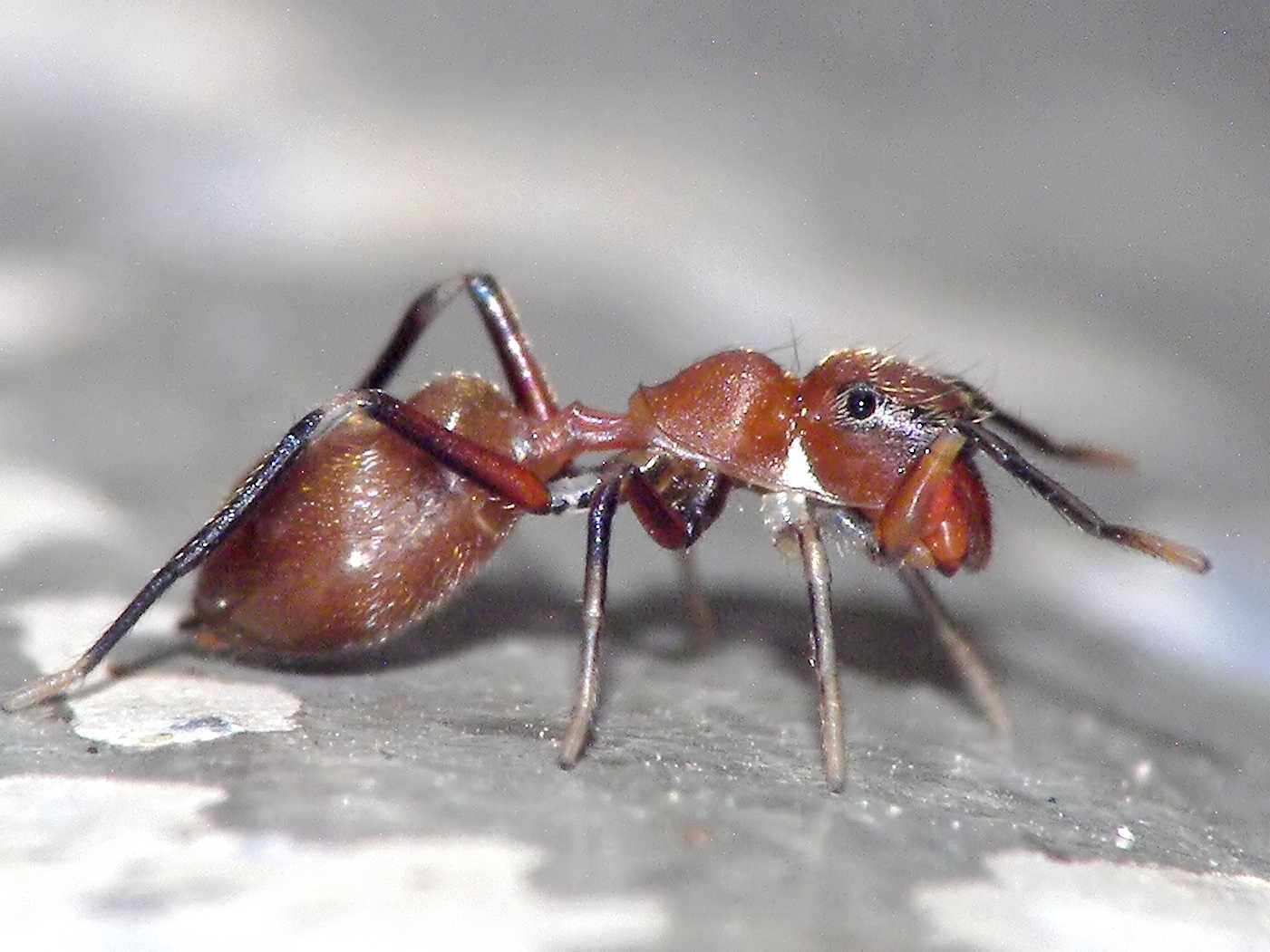 Unidentified Spider, Photo Taken in Hong Kong Wow, even i thought it's an ant, and i have a picture of a Myrmarachne on my wall... :) Myrmarachne sp. i guess.